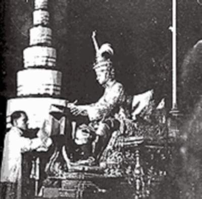 King Prajadhipok (Rama VII) endorsed The Constitution of the Siam Kingdom 1932 on 10 December 1932, at the Ananta Samakhom Throne Hall in the Dust Palace, Bangkok, Siam.